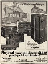 Moynat advertisement published in l'Illustration (1914)